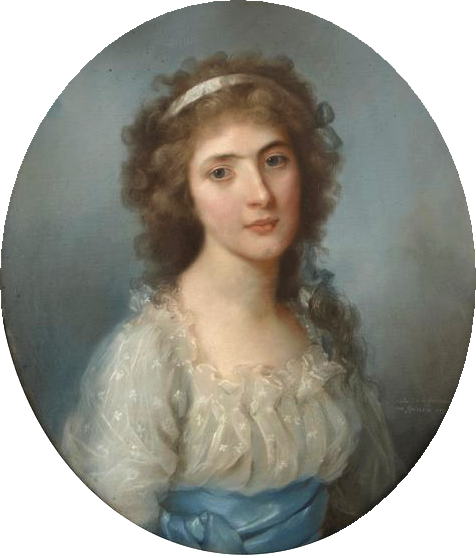 Portrait of woman